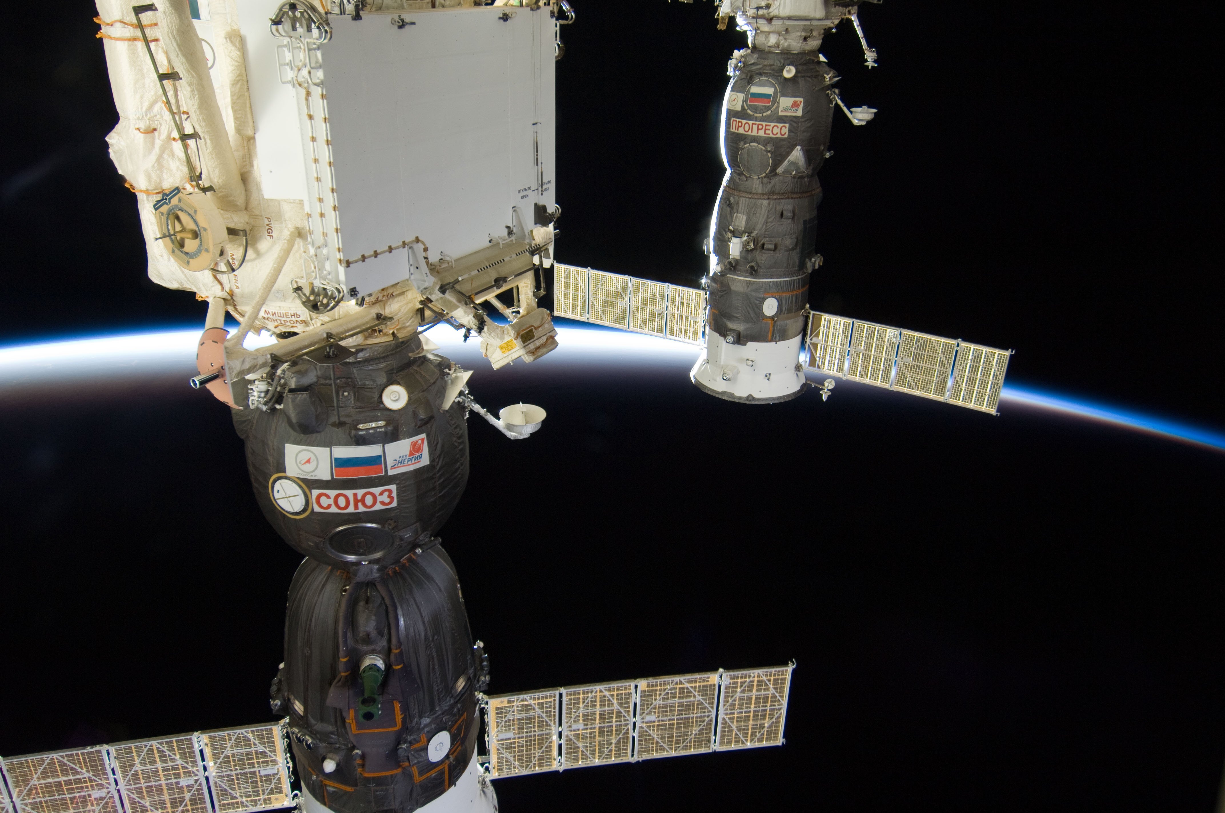 A Russian Soyuz spacecraft (foreground) and Progress resupply spacecraft, docked to the International Space Station, are featured in this image photographed by an Expedition 30 crew member on the station. The thin line of Earth's atmosphere and the blackness of space provide the backdrop for the scene.